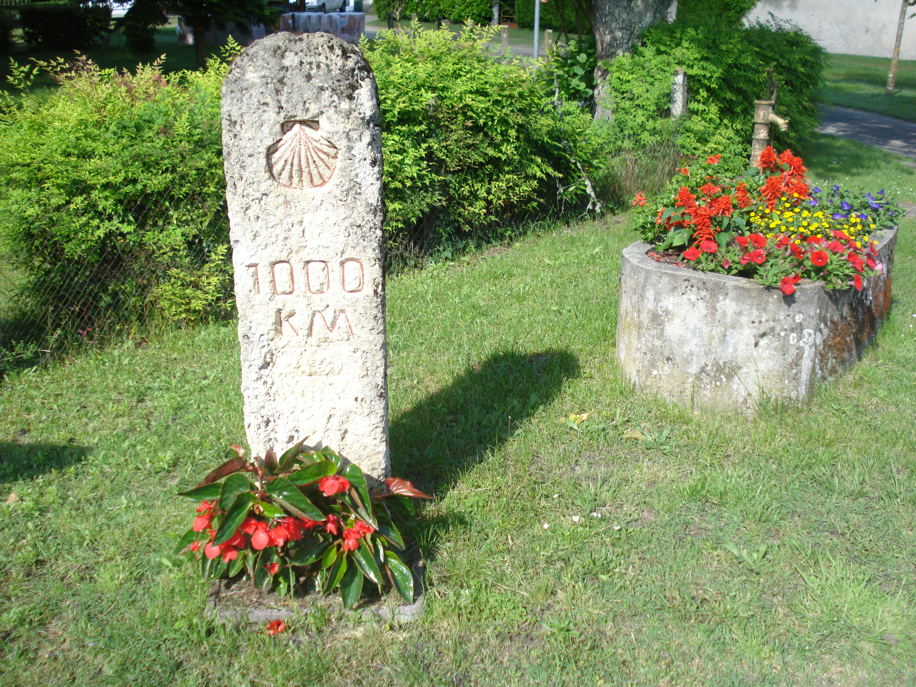 Retjons, the Compostella 1000 km waymark stone